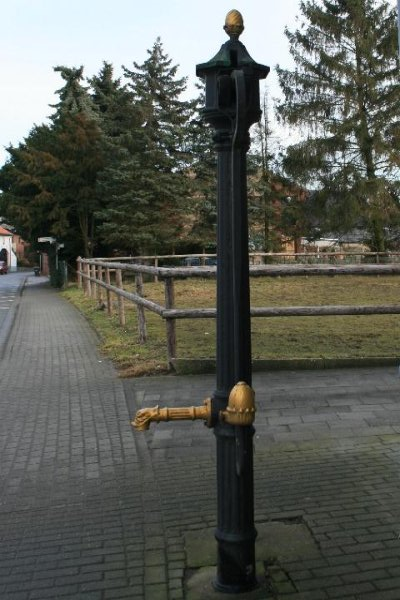 Cultural heritage monument No. 33 in Gangelt